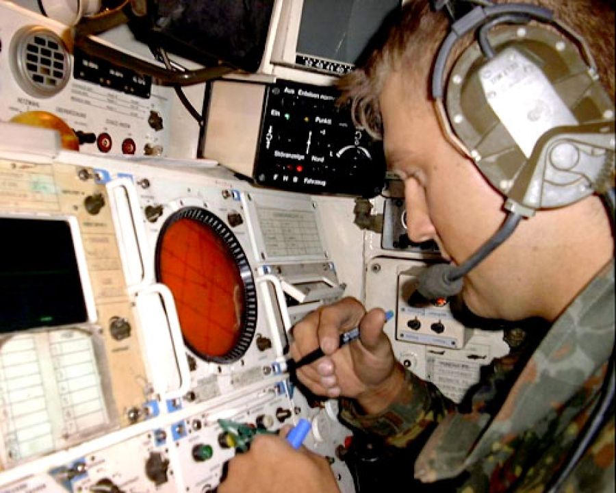 A German Roland anti-aircraft missile operator searches for U.S. Apache helicopters on his radar scope during a simulated night attack during the Schwarze Himmel (Black Sky) exercise south of Rothenburg, Germany, last year.